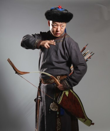 Manchu singer Song Xidong, aka. Akšan